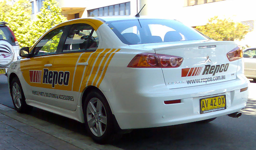 2007–2008 Mitsubishi Lancer (CJ) VR sedan, Repco. Photographed in Miranda, New South Wales, Australia.